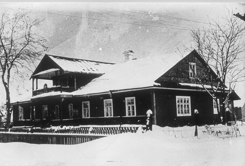 Building of a grammar school of a name A.Mickevich in Pruzhany.1925